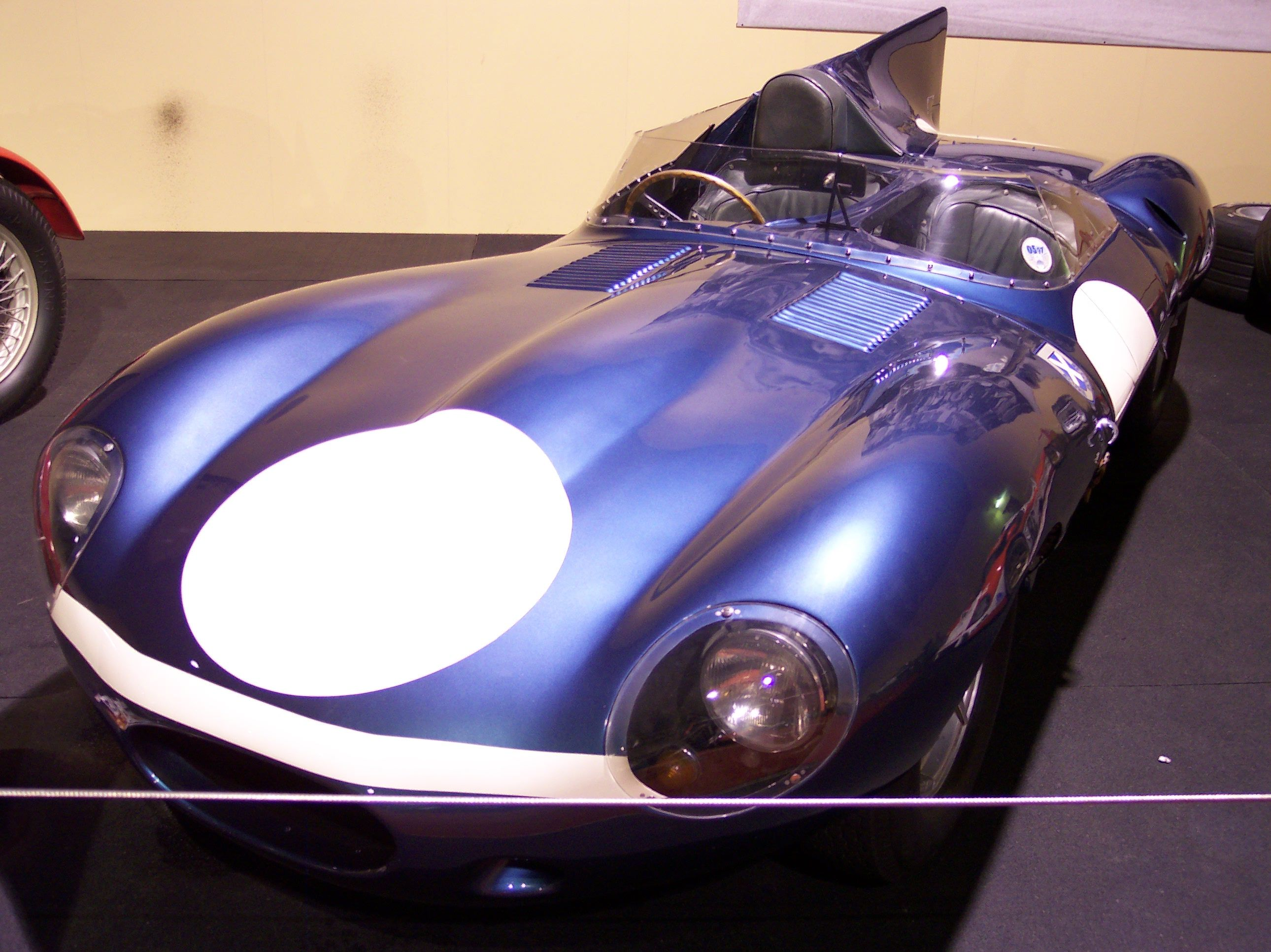 Jaguar XKD 606 1956 (1957 24 Hours of Le Mans winning car)